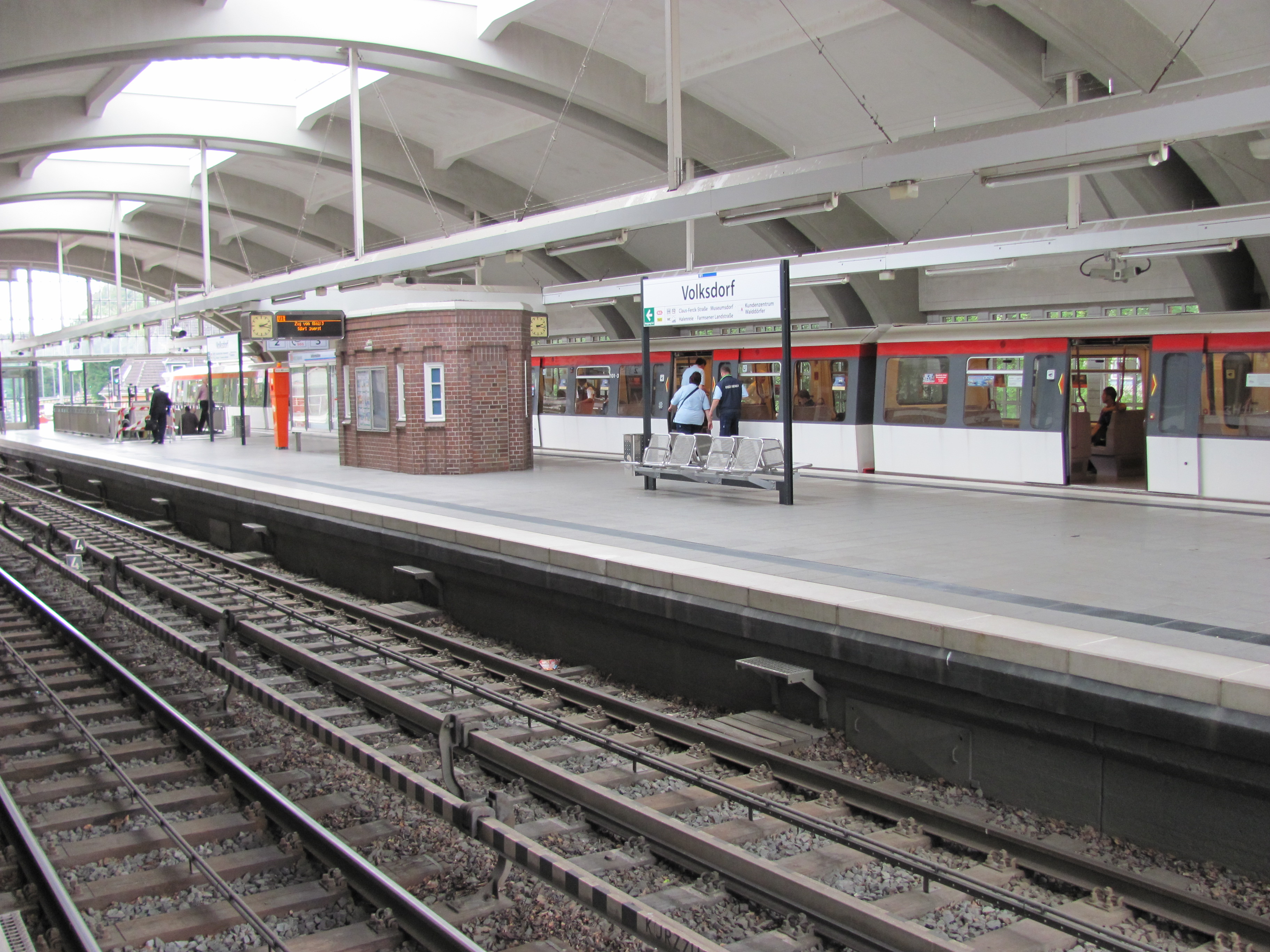 U-Bahn station Volksdorf in Hamburg, Germany